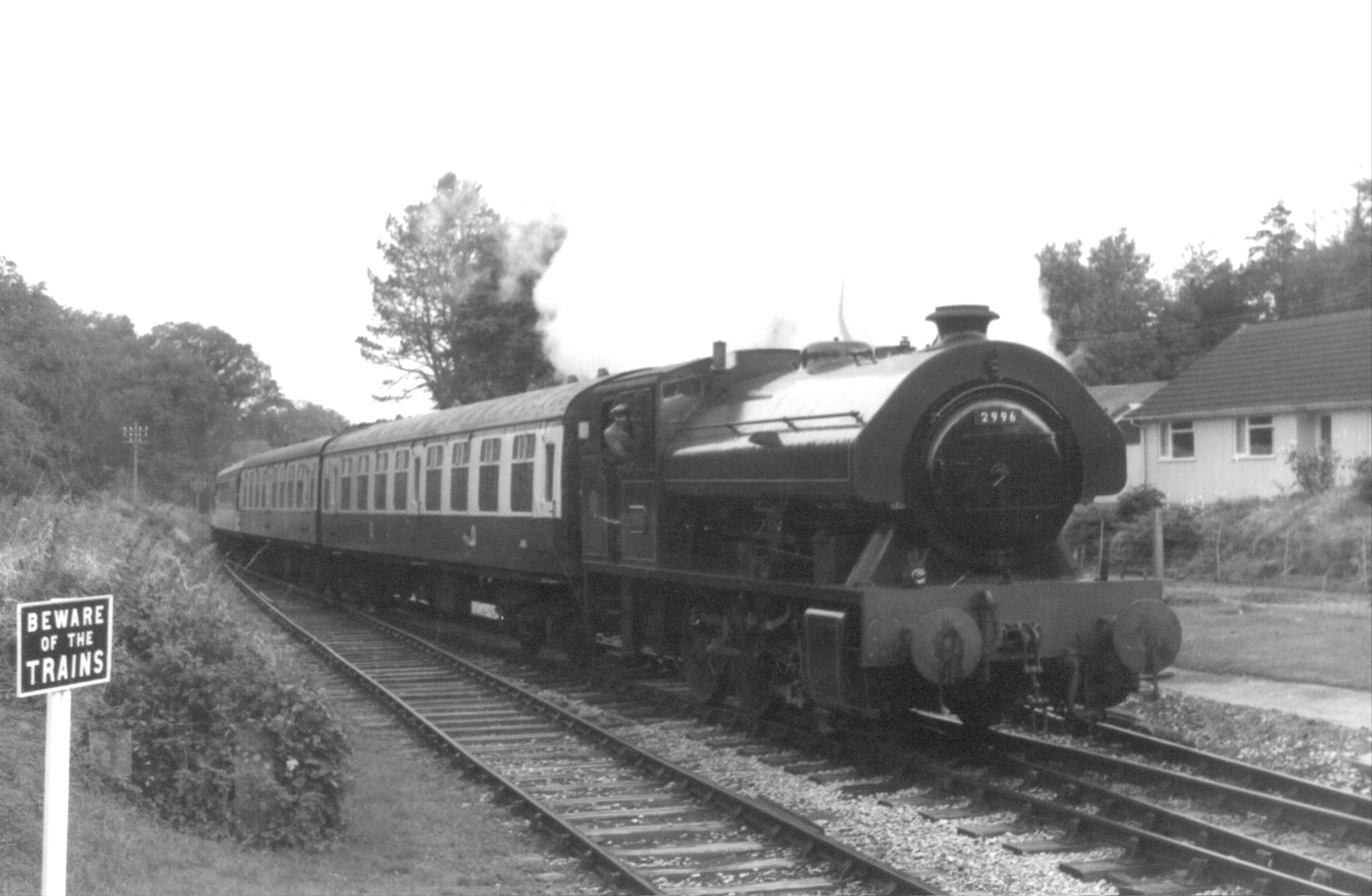 Scan from print, negative long lost!